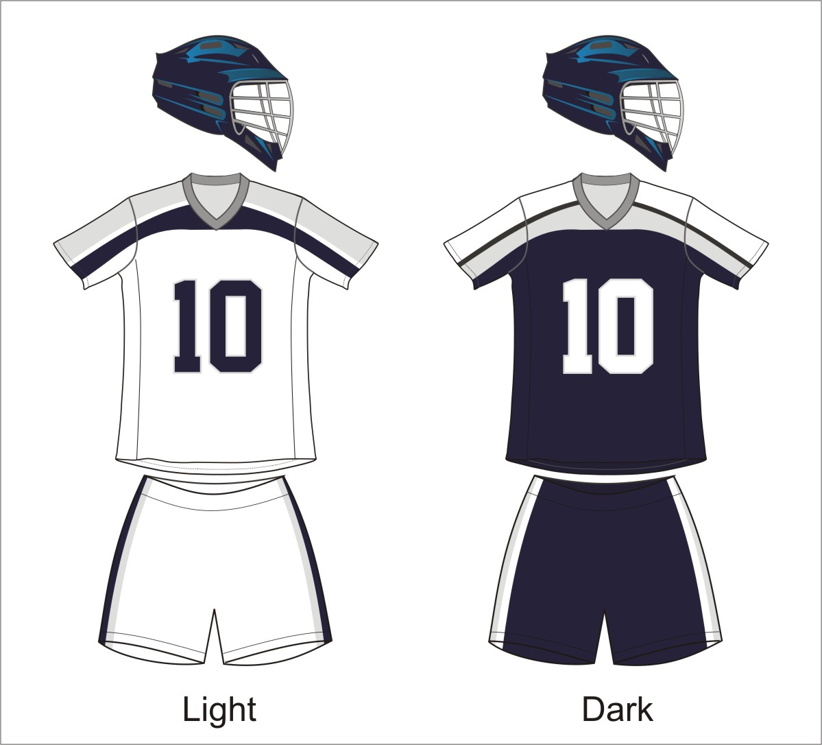 Lacrosse uniforms in white and navy and grey jerseys. No manufacturer brands or other copyrighted material were included.